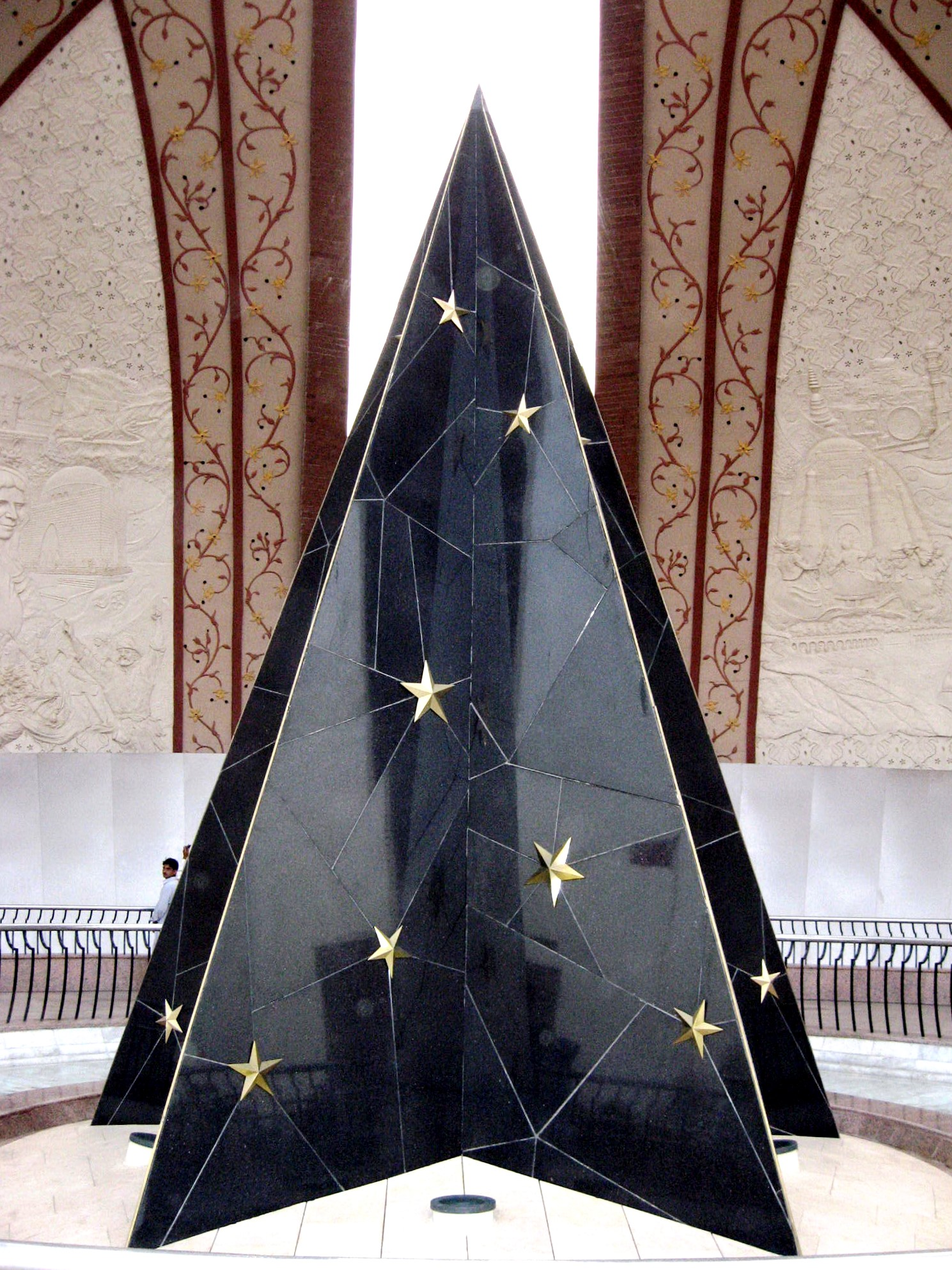 Pakistan Monument This is a photo of a monument in Pakistan identified as the ICT-4